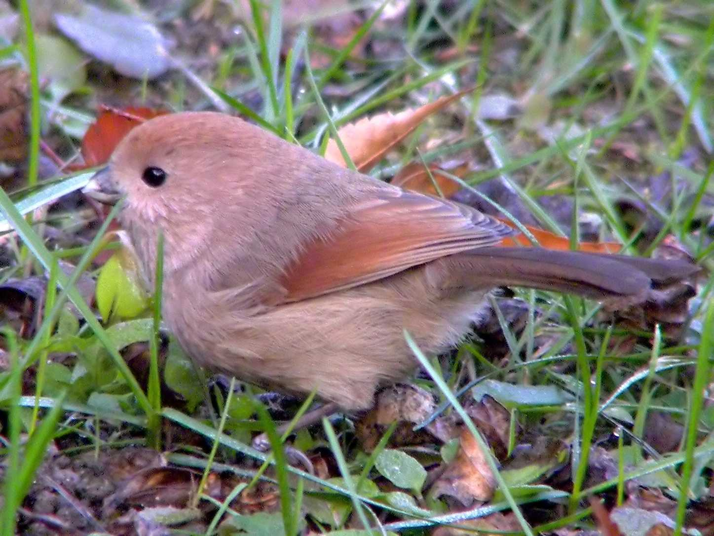 Vinous-throated Parrotbill Sinosuthora webbiana, on a hillside near Seoul, South Korea